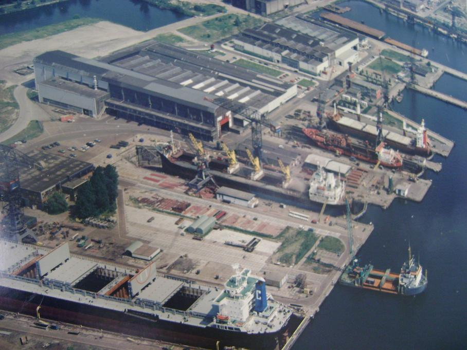 Muurplaat van een luchtschot van Shipdock Amsterdam BV.